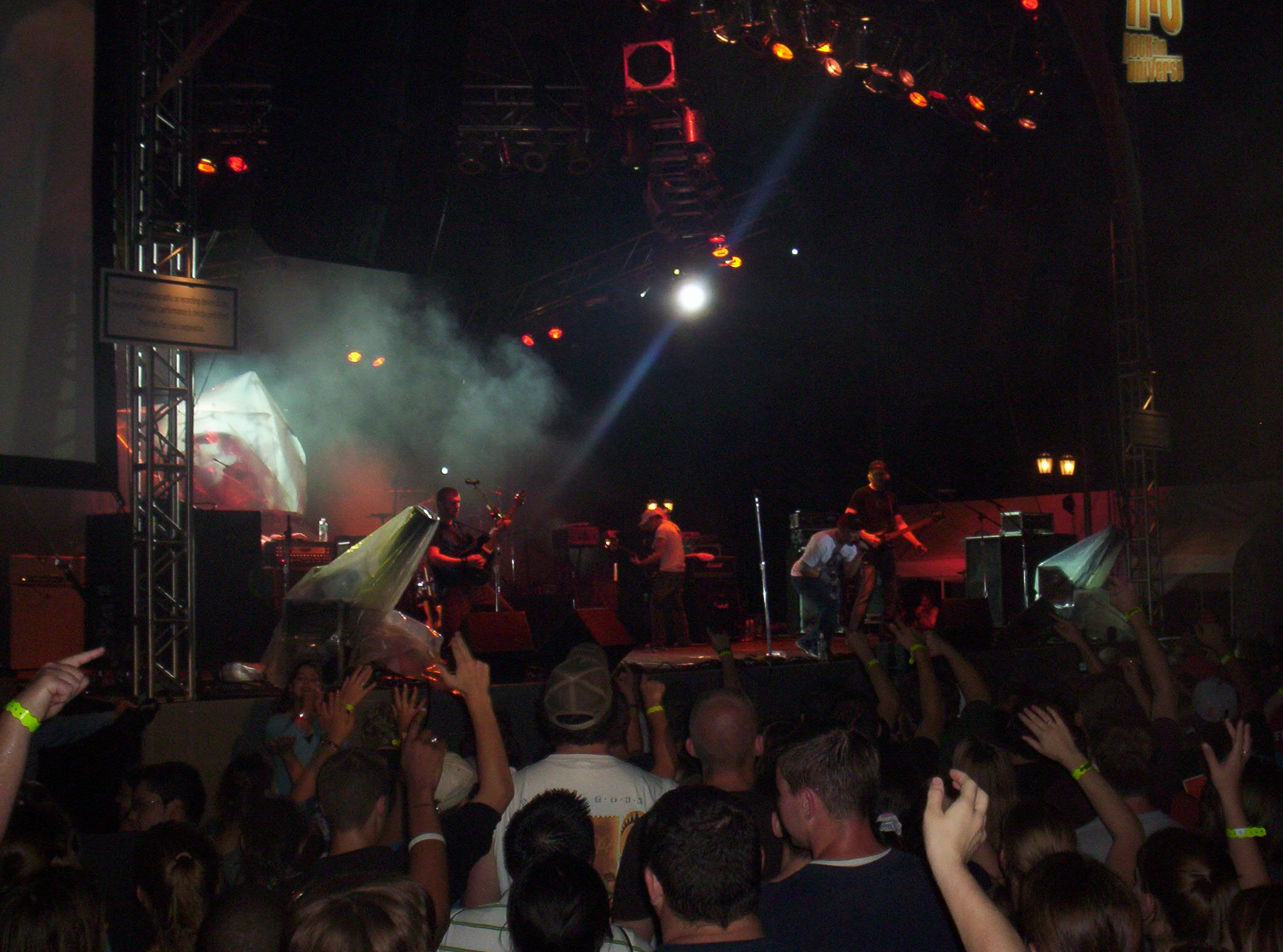 This is a picture of Kutless playing live at Rock the Universe 2006. I took this picture myself.